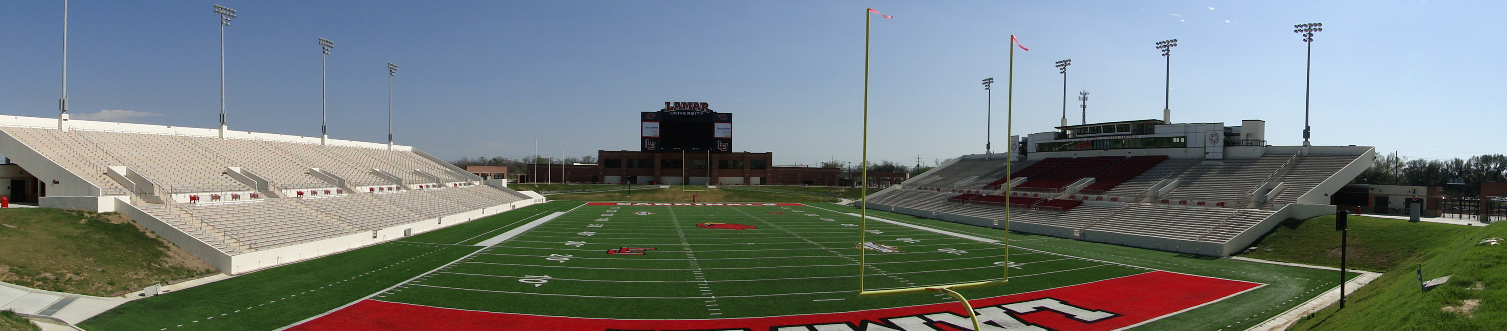 Provost Umphrey Stadium Panorama from the Morgan Suites